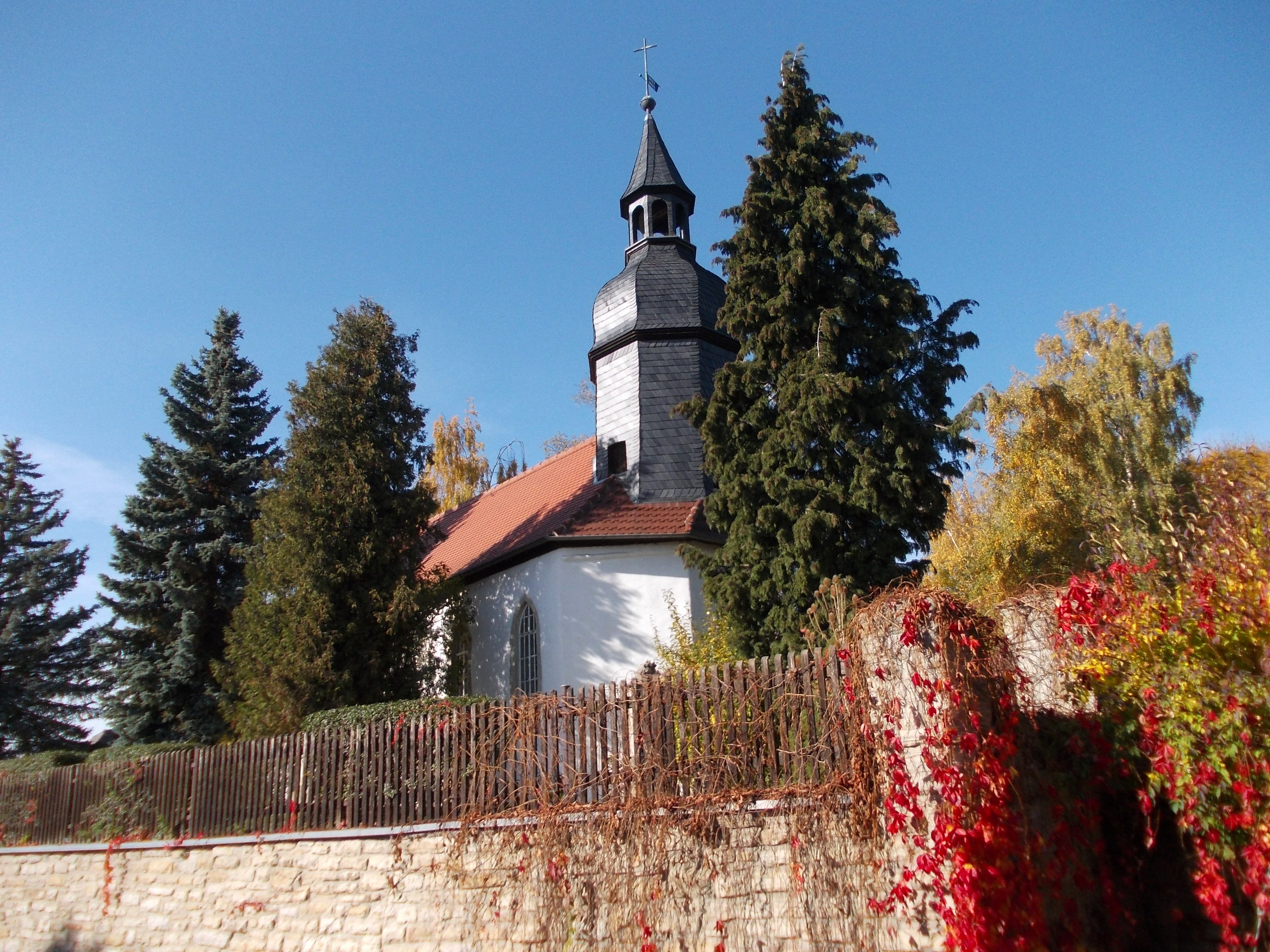 Loitzschütz church (Gutenborn, district of Burgenlandkreis, Saxony-Anhalt)